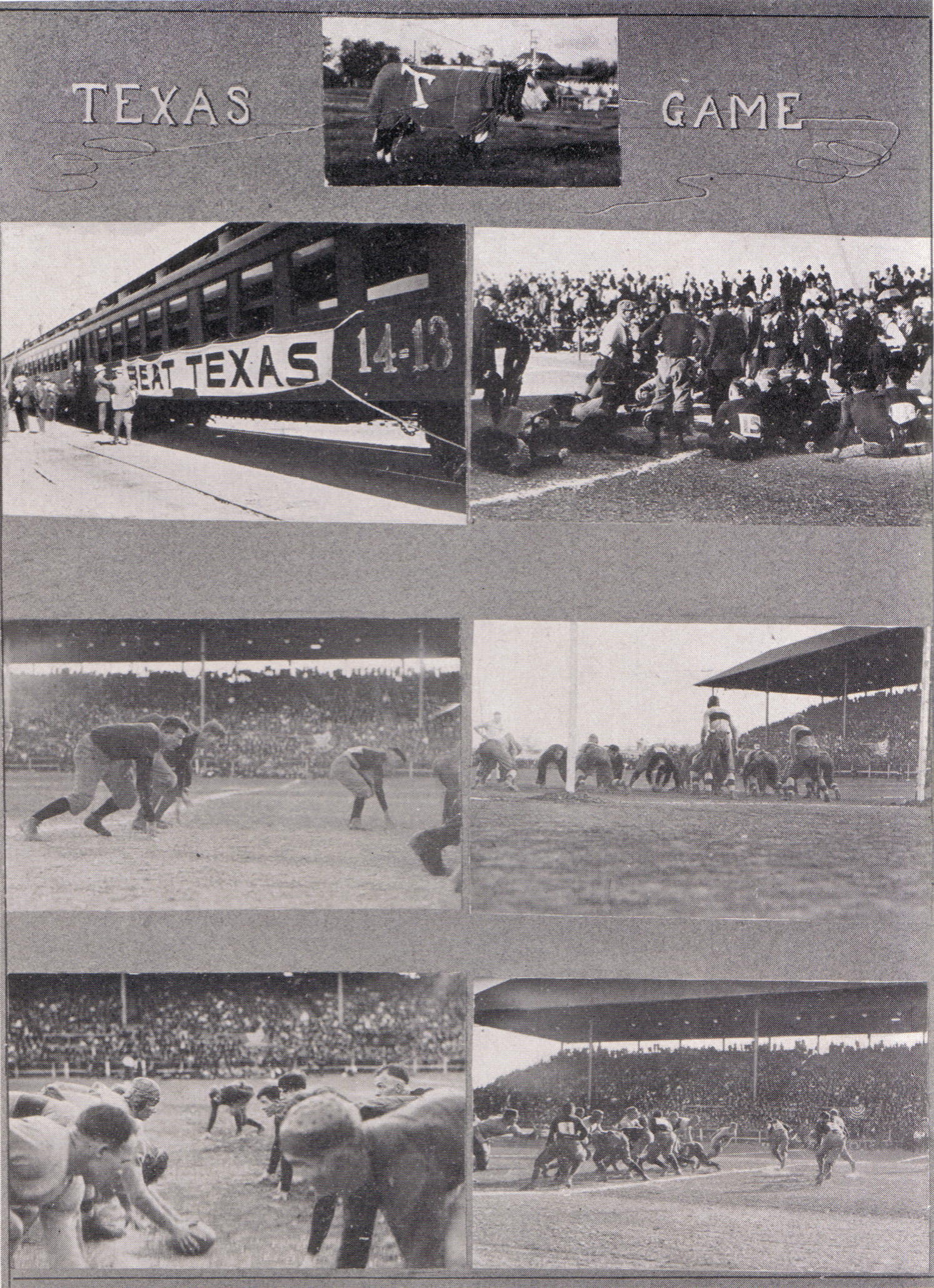 A page from the 1916 Sooner Yearbook depicting the events of the 1915 Oklahoma Sooners vs Texas Longhorns football game. The Sooners won 14-13.